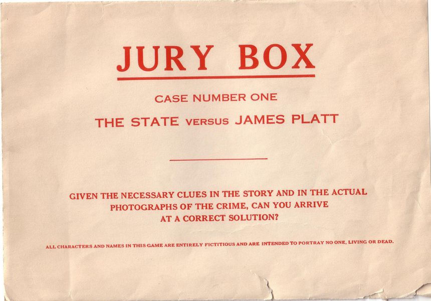 Envelope text for the board game "Jury Box".